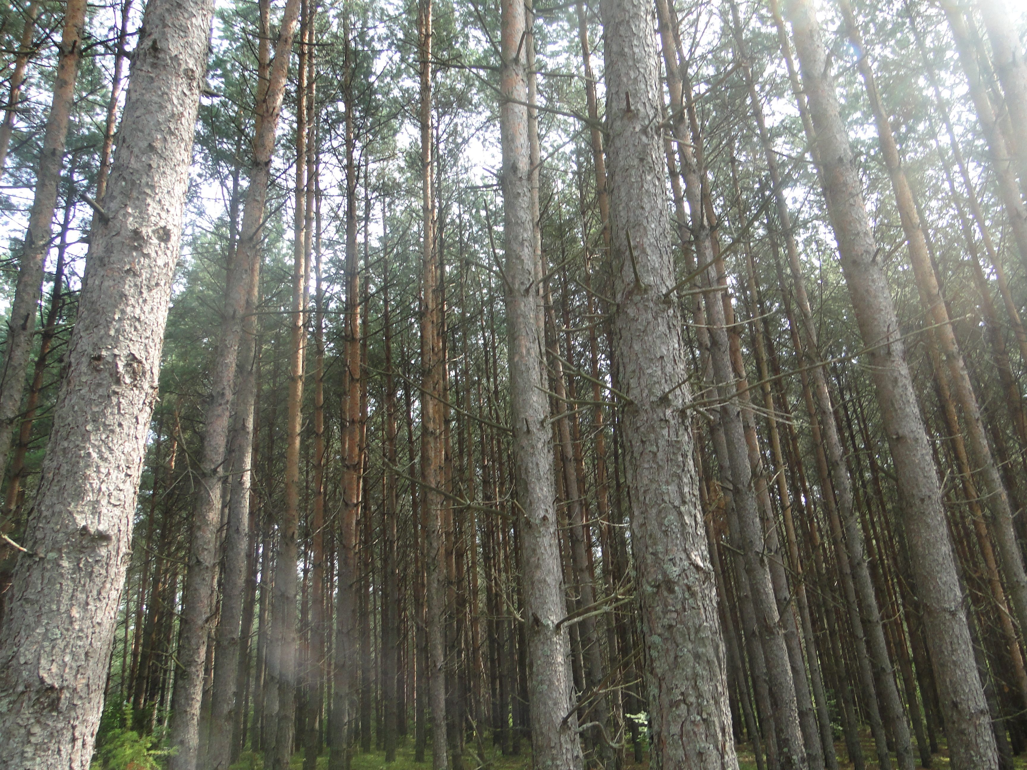 Puszcza Piska, Poland